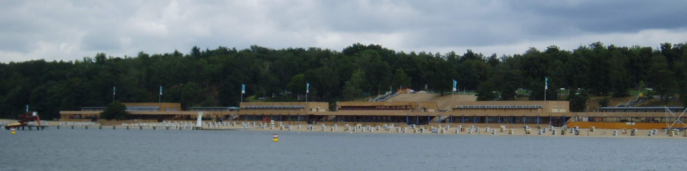 Swimming beach Wannsee, Berlin